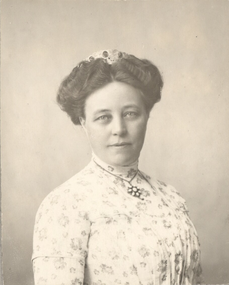 Photograph of the Danish politician Elna Munch (1871-1945)